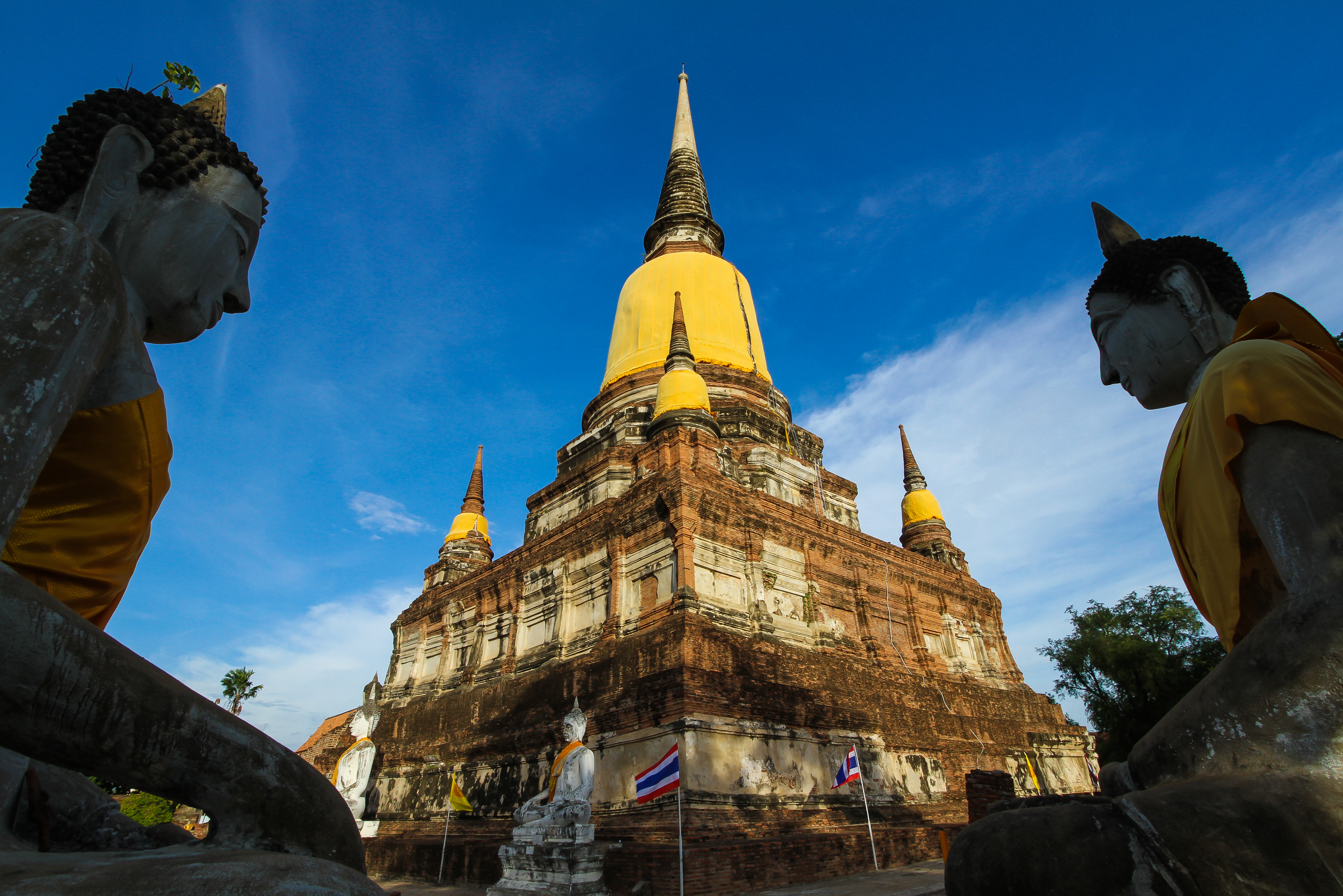 Wat Yai Chai Mongkhon, Khlong Suan Phlu Subdistrict, Phra Nakhon Si Ayutthaya District, Phra Nakhon Si Ayutthaya Province